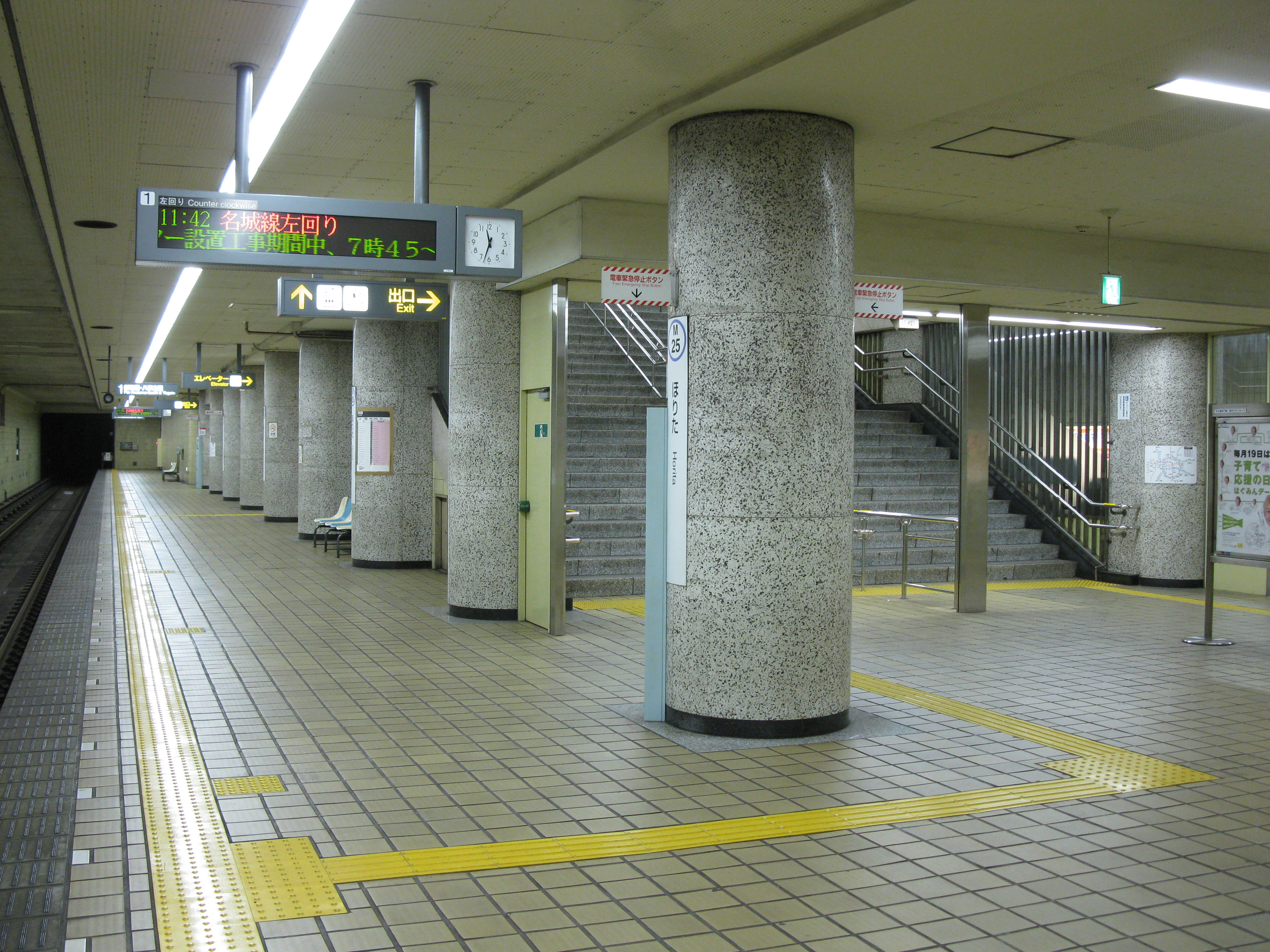 Horita Station platform (Nagoya Municipal Subway Meijō Line)